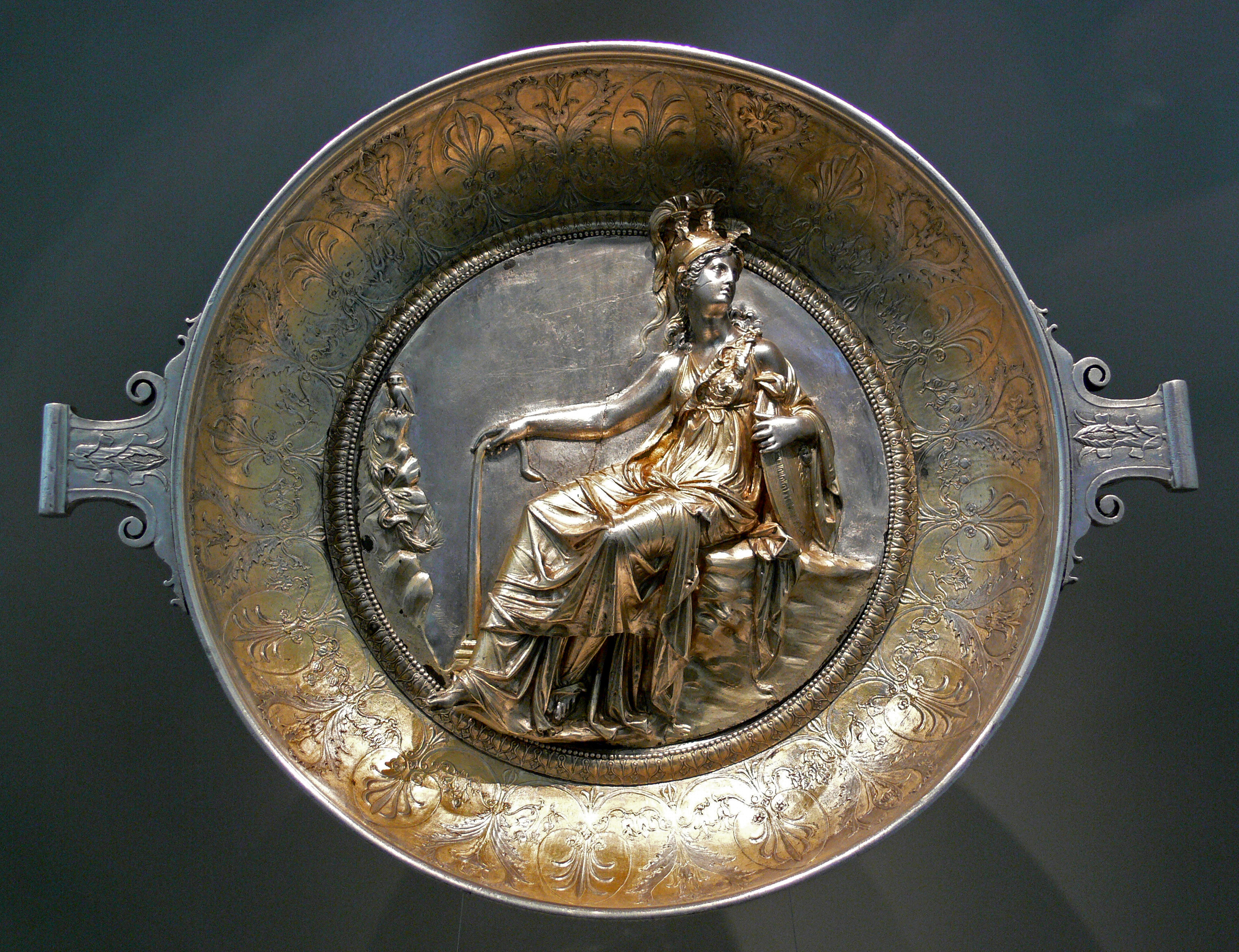 Athena bowl from the Hildesheim Silver Treasure; 1st century BC Collection: Antikensammlung Berlin; 20.12 A